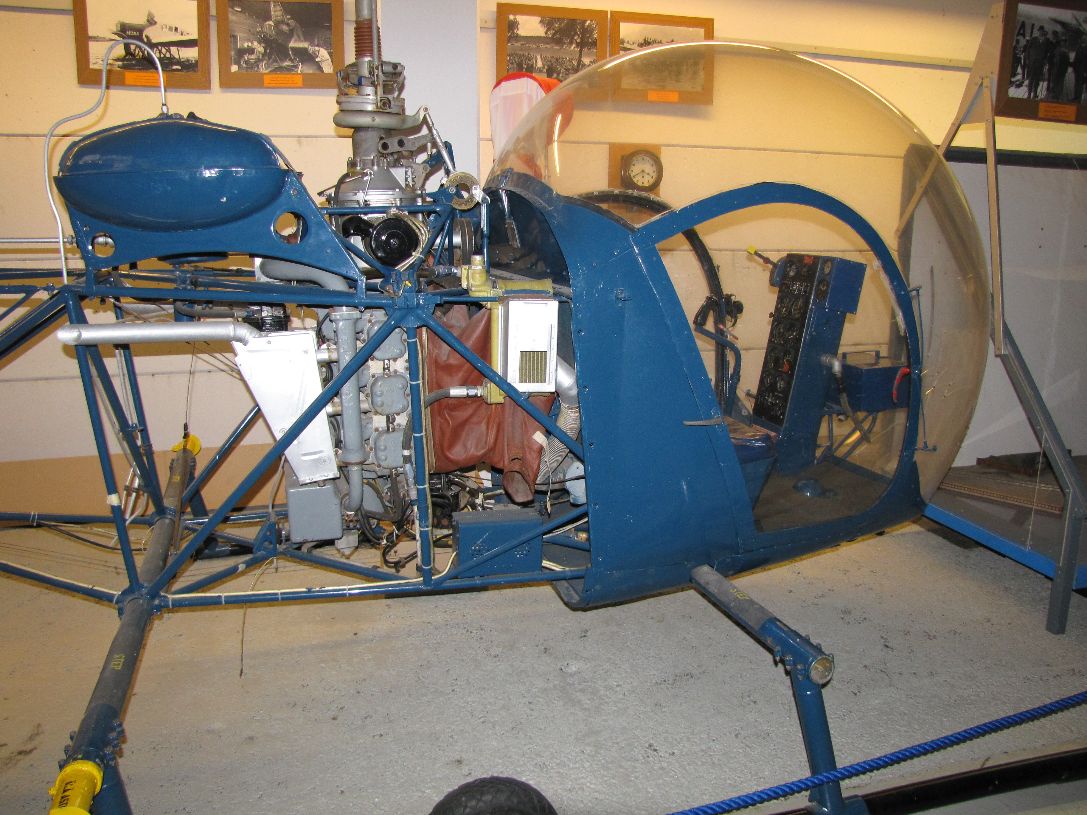 Bell 47 D-1 helicopter in Finnish Aviation Museum. This was the first helicopter in Finland, purchased in 1953 jointly by Finnish Air Force and Imatran Voima Ltd. From 1957 used solely by Imatran Voima, last flight in 1976.